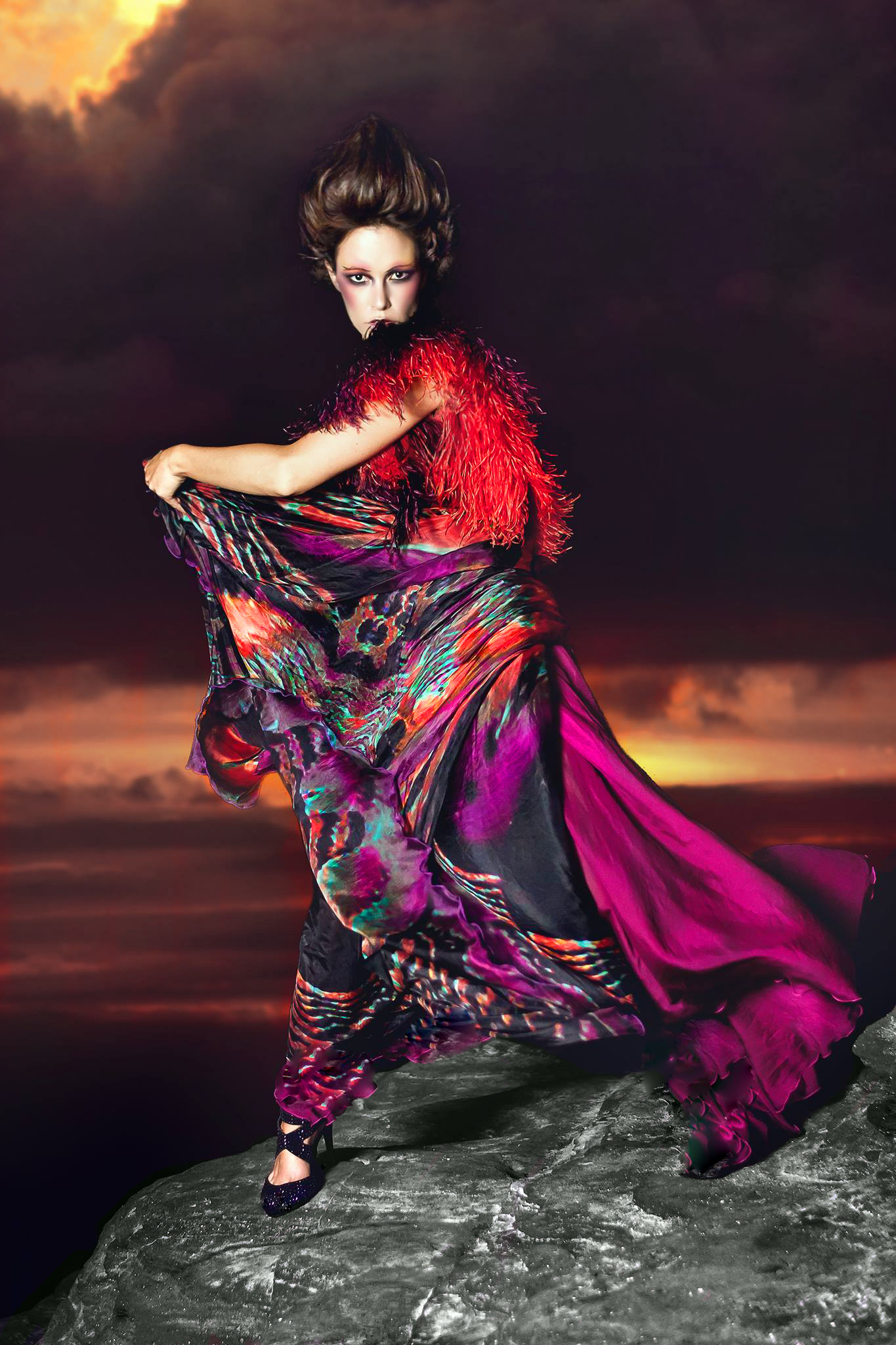 Shaholly Ayers photo modelling in Hawaii for Hendrik Vermeulen